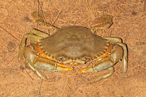 Devbagh, Karwar, India